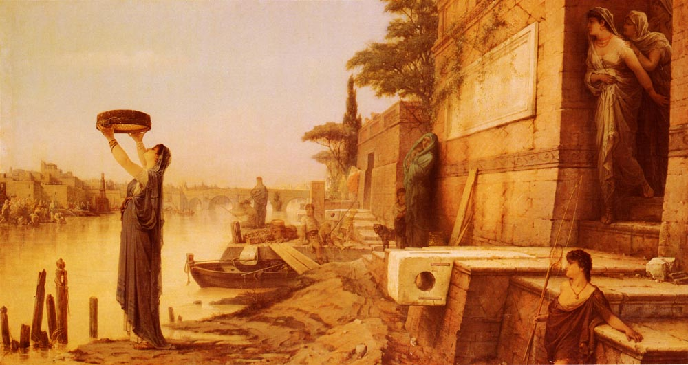 The Tuccia Vestal. 1874 Oil on canvas 54 x 99 3/8 inches (137.2 x 252.7 cm) Private collection Rome